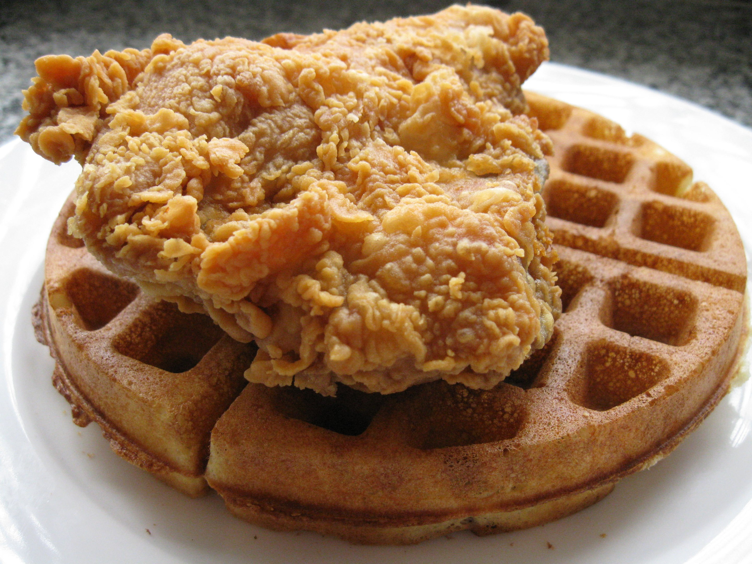 Popeye's Fried Chicken and Crispy Waffle.